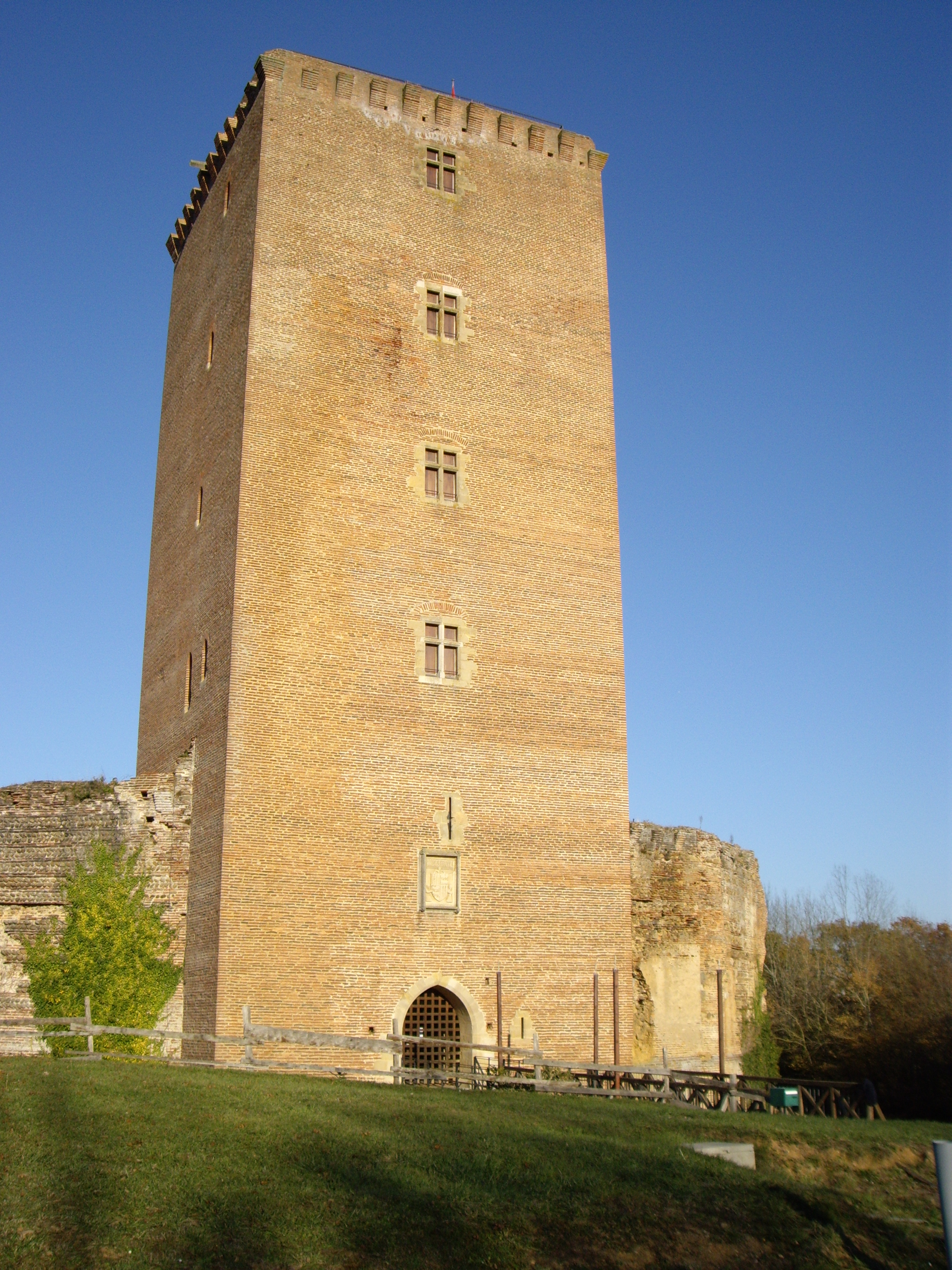 Montaner castle, Pyrénées-Atlantiques, France